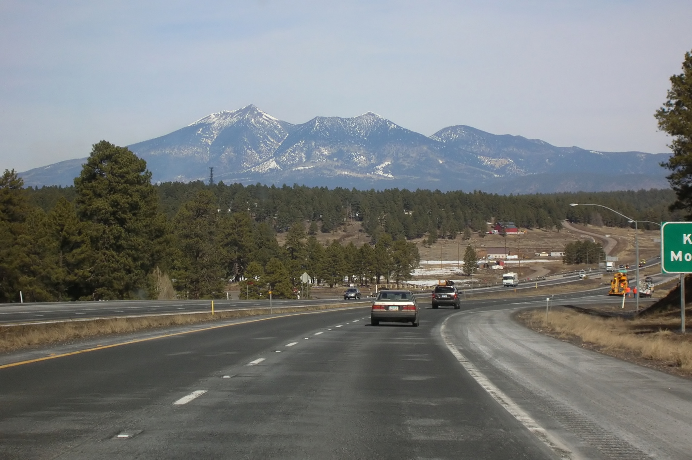 Interstate 17 near Flagstaff, Arizona, United States. The San Francisco Peaks are in the background.